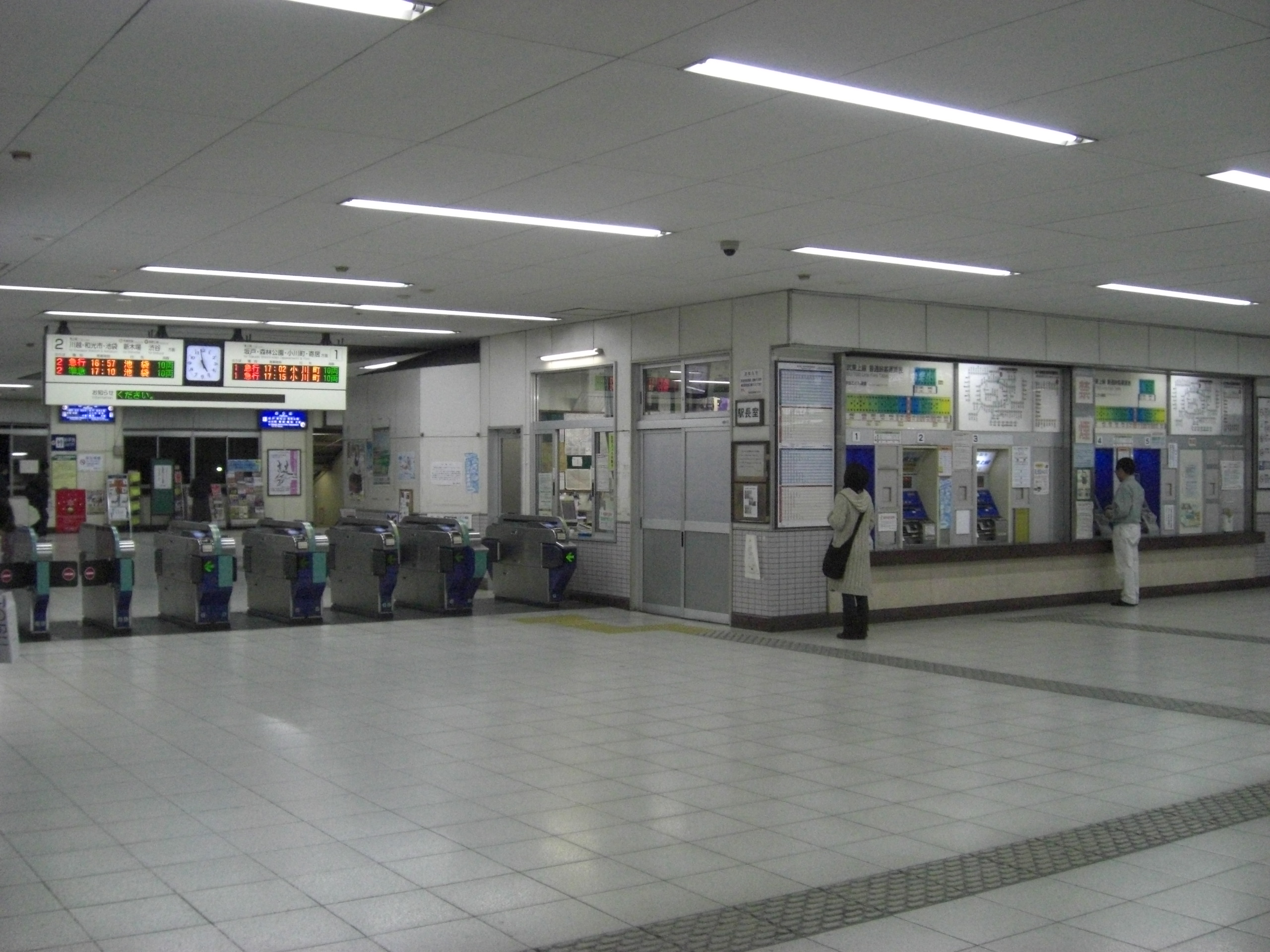 The ticket barriers at Tsurugashima Station on the Tobu Tojo Line